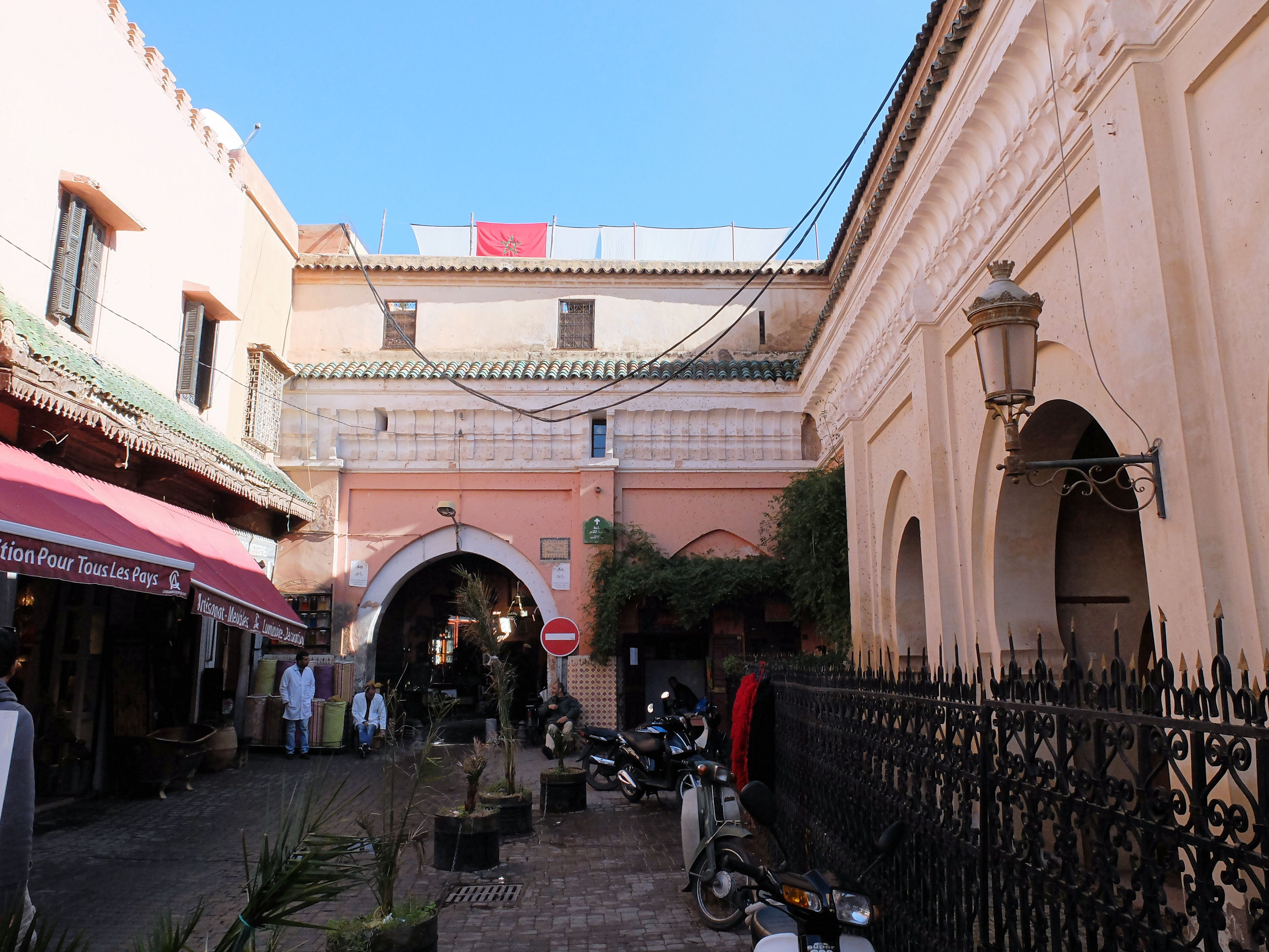 The small square in front of the Mouassine Fountain and mosque, looking east.